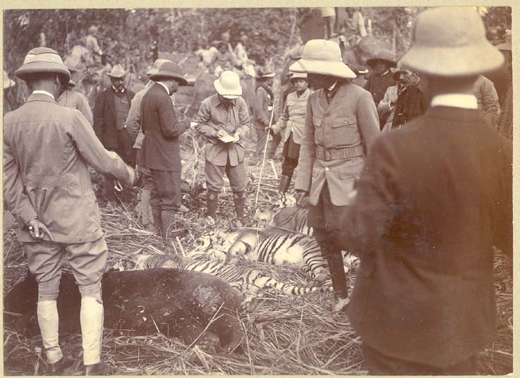 George V takes note of the number killed - 3-4 tigers and a bear. A total of 39 tigers and four bears were killed during this hunt.